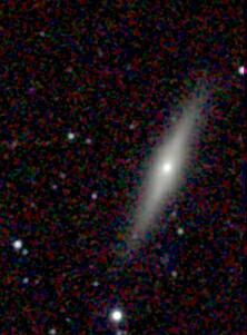 Galaxy NGC 7332. The galaxy has an apparent magnitude of 12. The star below the galaxy has an apparent magnitude of 11.